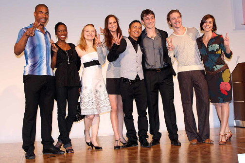 Team France at the 2009 ISU World Team Trophy in Figure Skating. From left to right: Yannick Bonheur, Vanessa James, Gwendoline Didier, Candice Didier, Florent Amodio, Brian Joubert, Fabian Bourzat, Nathalie Péchalat